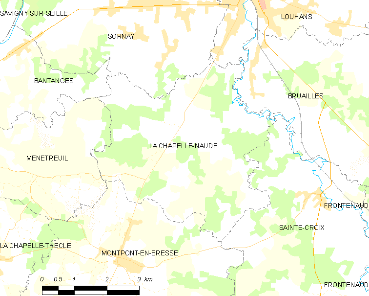 Map of French municipality